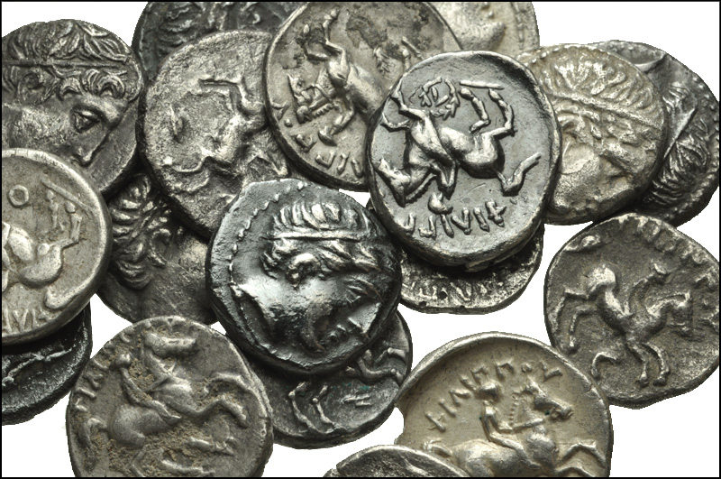 GREEK. Northern Greece. AR 1-5th tetradrachms of the Kings of Macedon, Philip II